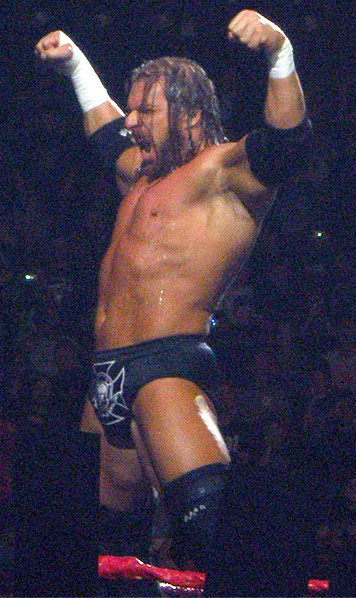 Triple H during a house show in Sydney, Australia